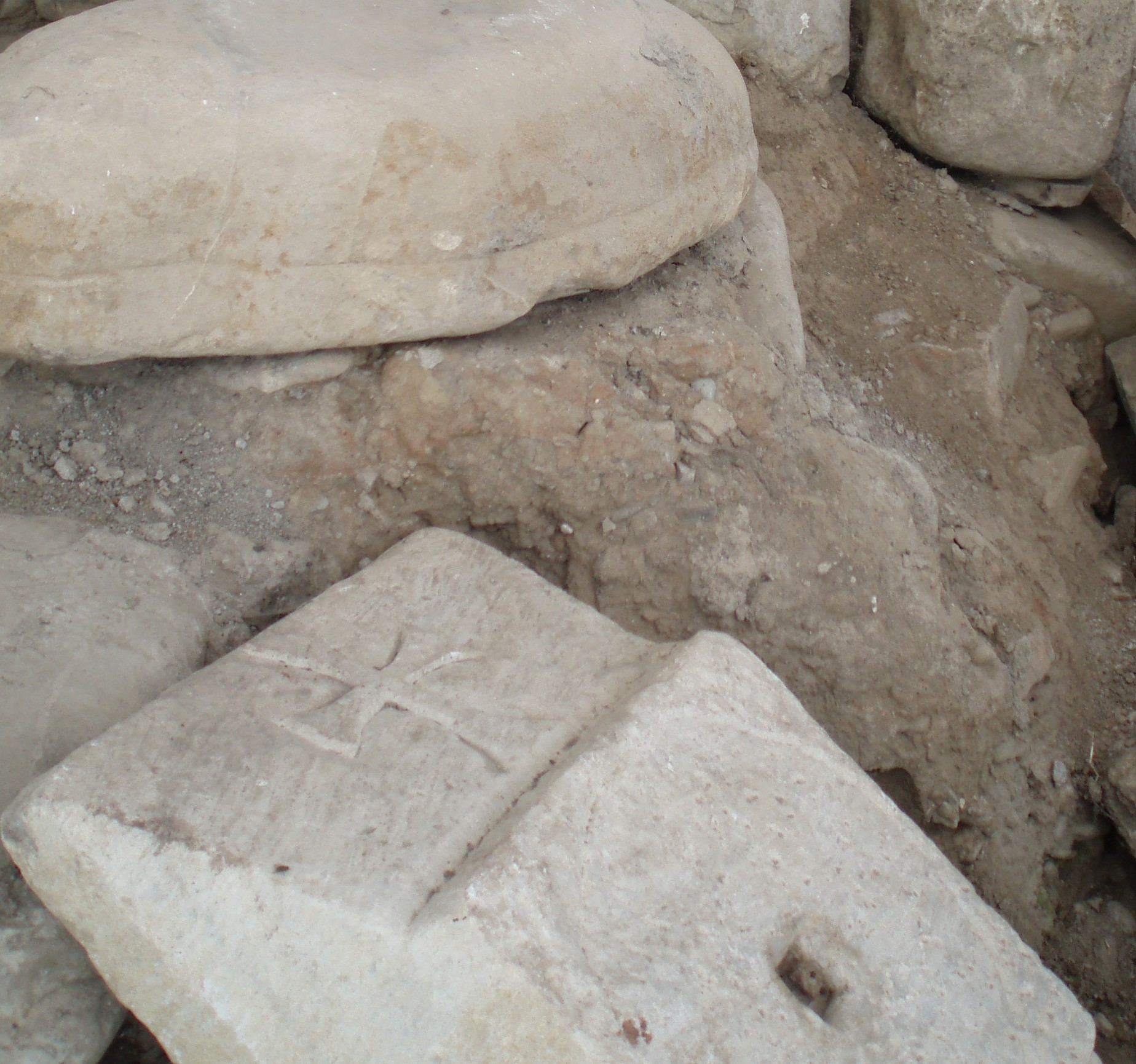 The castle in Elbasan, Albania. Byzantine cross.